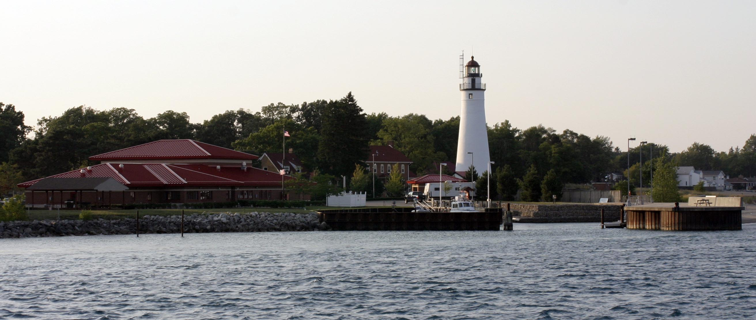 Fort Gratiot Lighthouse